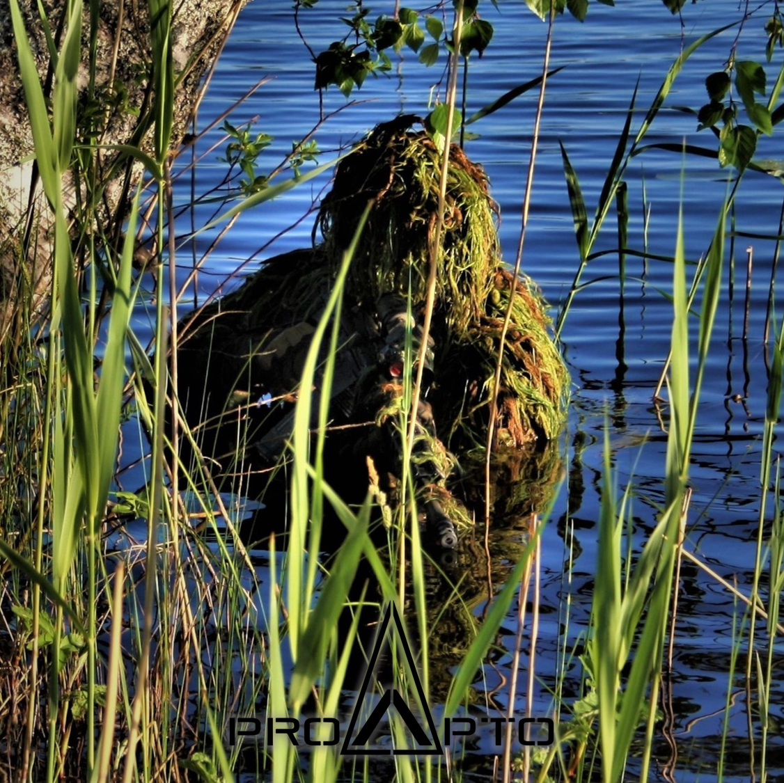 Finnish Sniper using a ProApto Ghillie during training operations